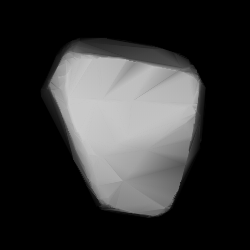 3D convex shape model of 830 Petropolitana, computed using light curve inversion techniques. J. Hanuš, J. Ďurech, M. Brož, B. D. Warner (June 2011). "A study of asteroid pole-latitude distribution based on an extended set of shape models derived by the lightcurve inversion method". Astronomy and Astrophysics 530: A134. ISSN 0004-6361. arXiv